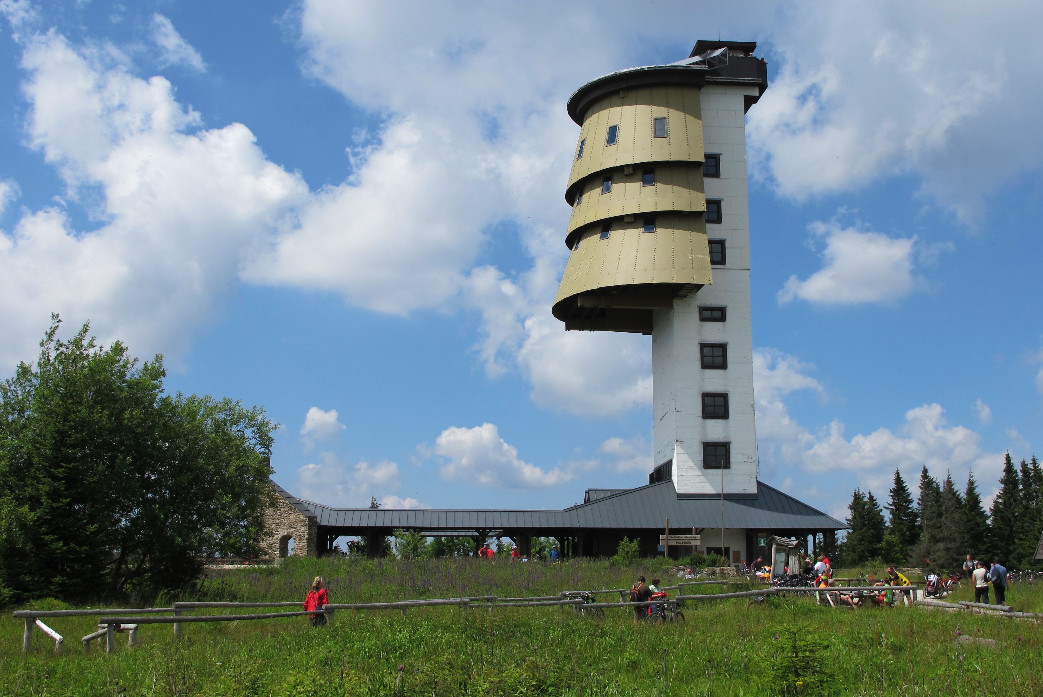 Look-out tower at the peak of the Poledník, national park Šumava, near Prášily in Klatovy District